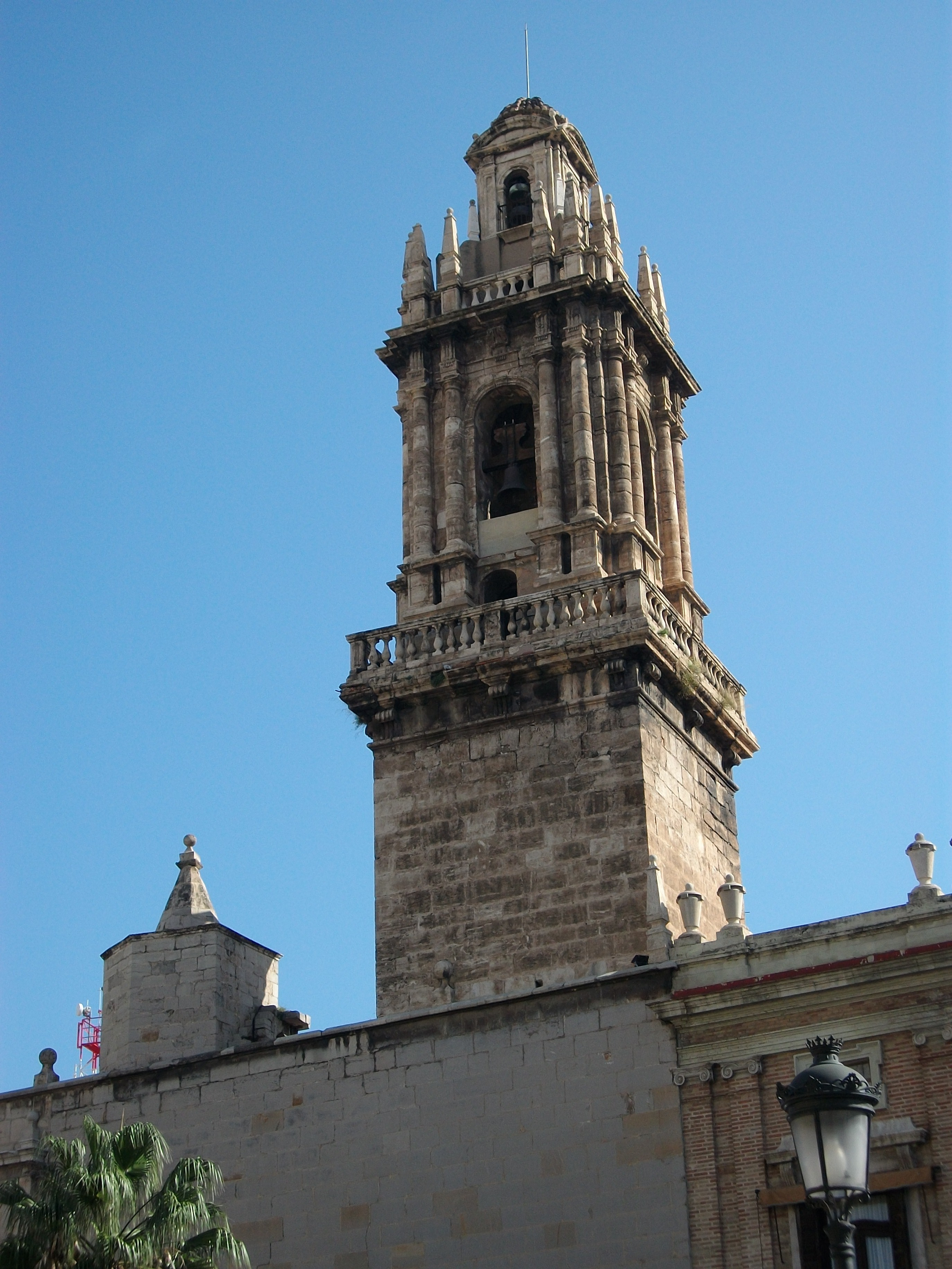 Church Bell tower